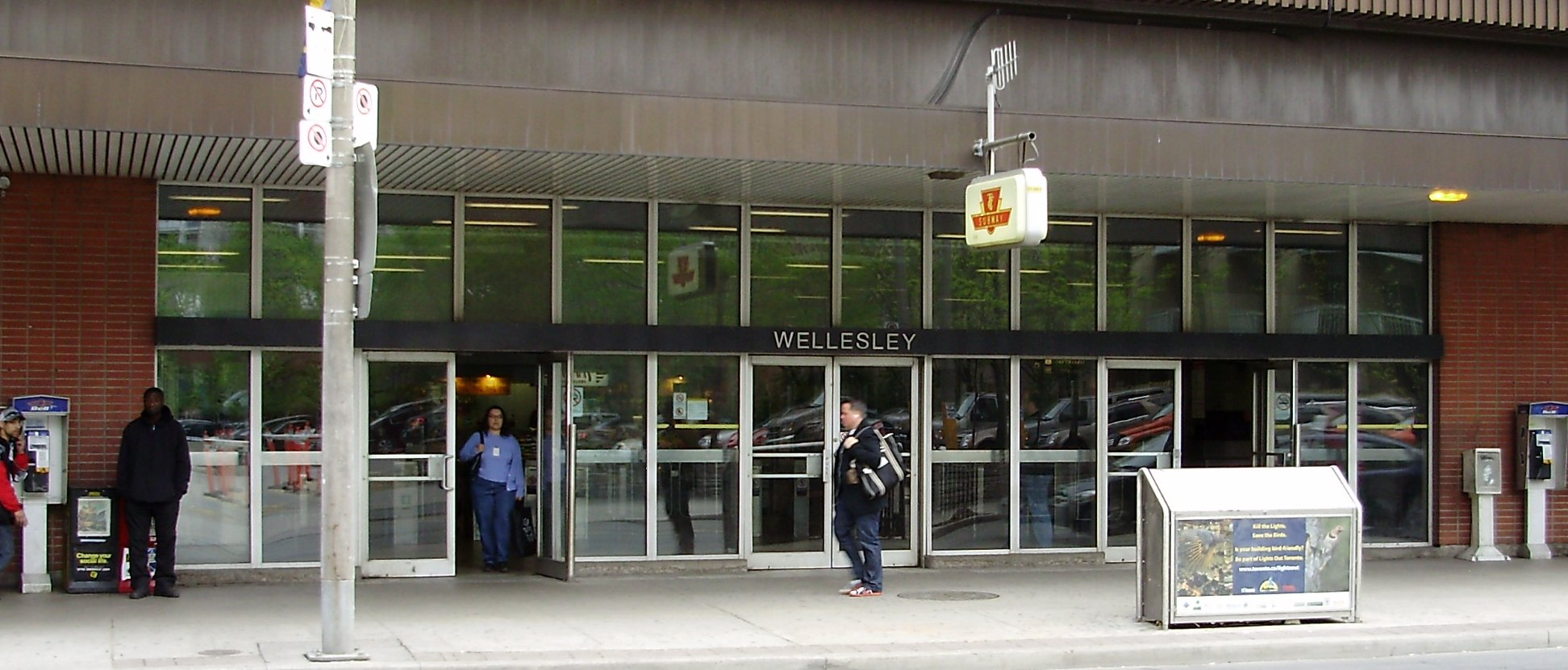 The Toronto Transit Commission's Wellesley station, photographed from the south side of Wellesley Street East, in Toronto, Canada.